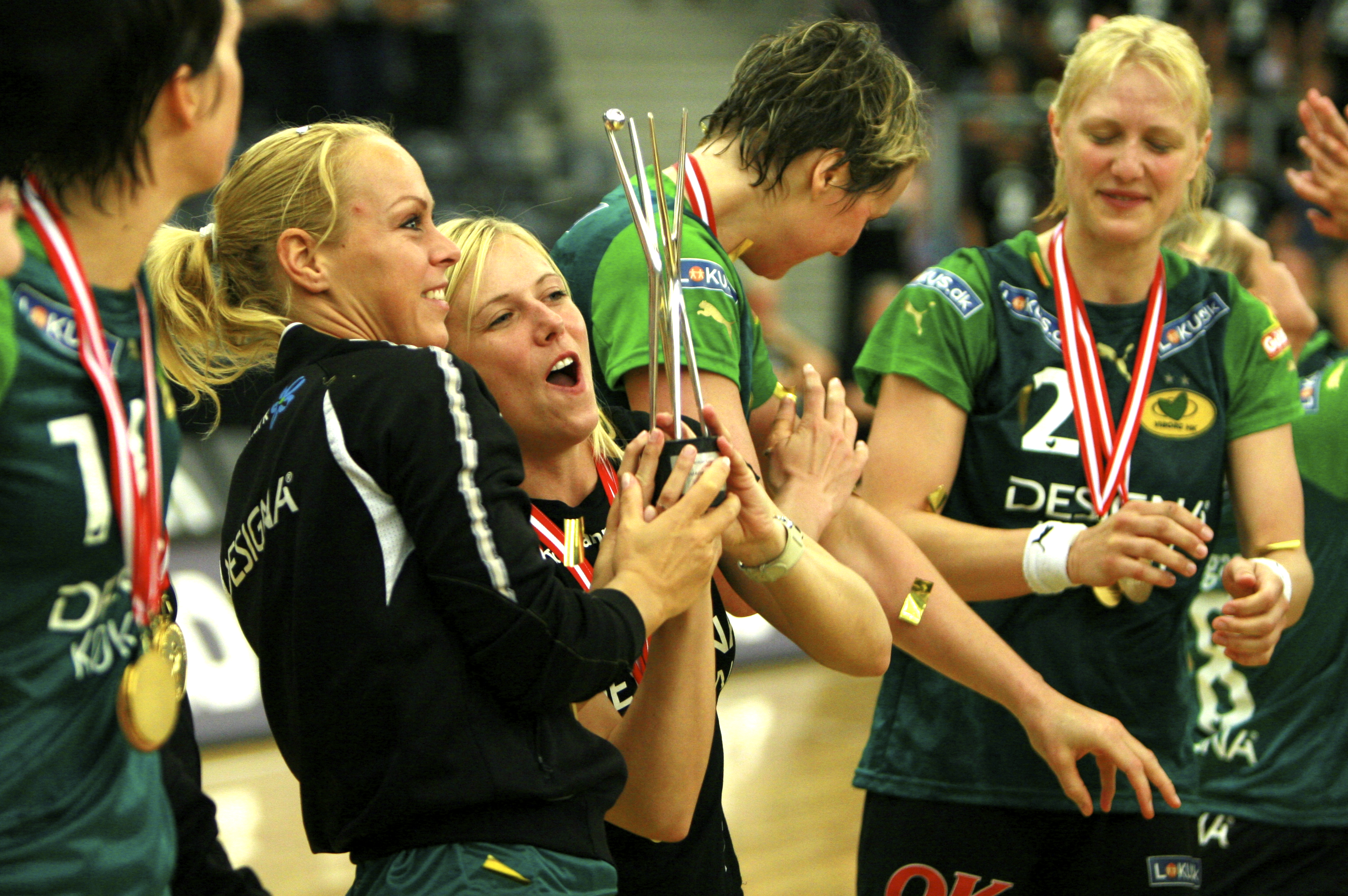 Viborg HK wins the danish championship.